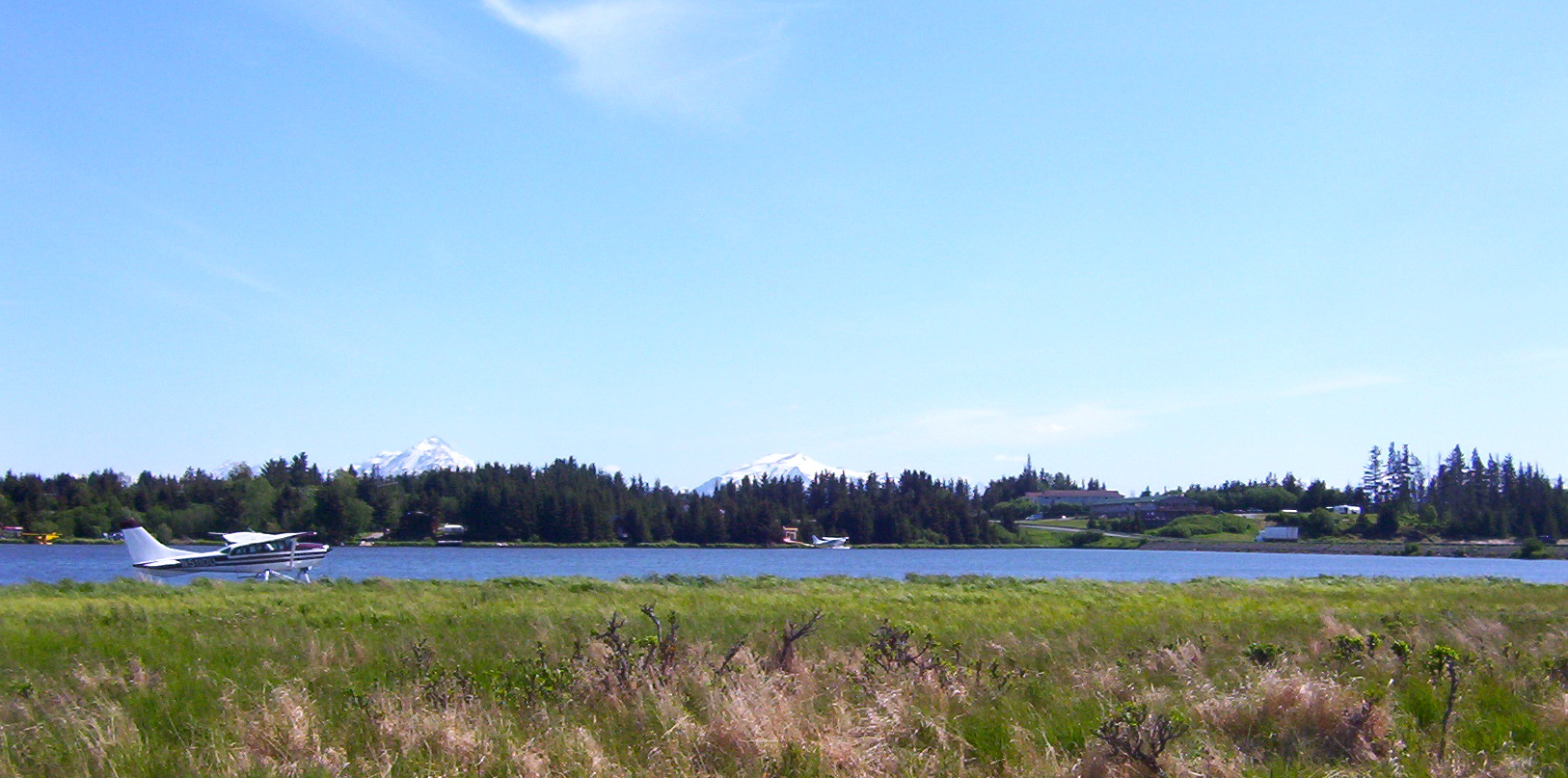 Floatplanes and docks on Beluga Lake, part of the Homer, Alaska airport